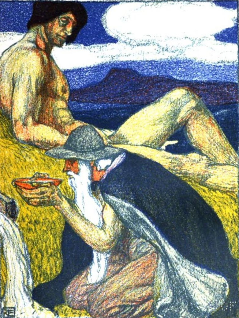 Odin am Brunnen der Weisheit (the title given to the work on page xii). A depiction of the god Odin drinking from the well of wisdom.